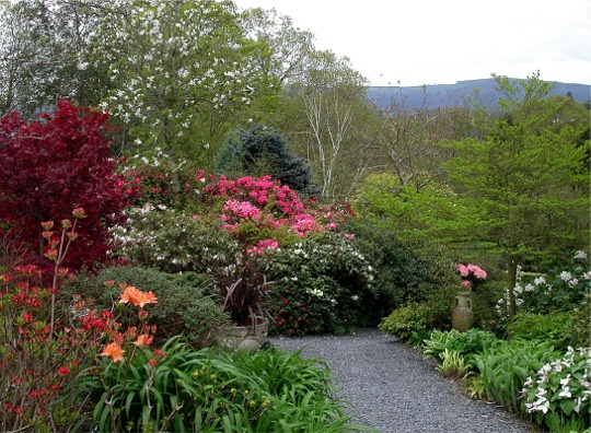 The Dingle Garden